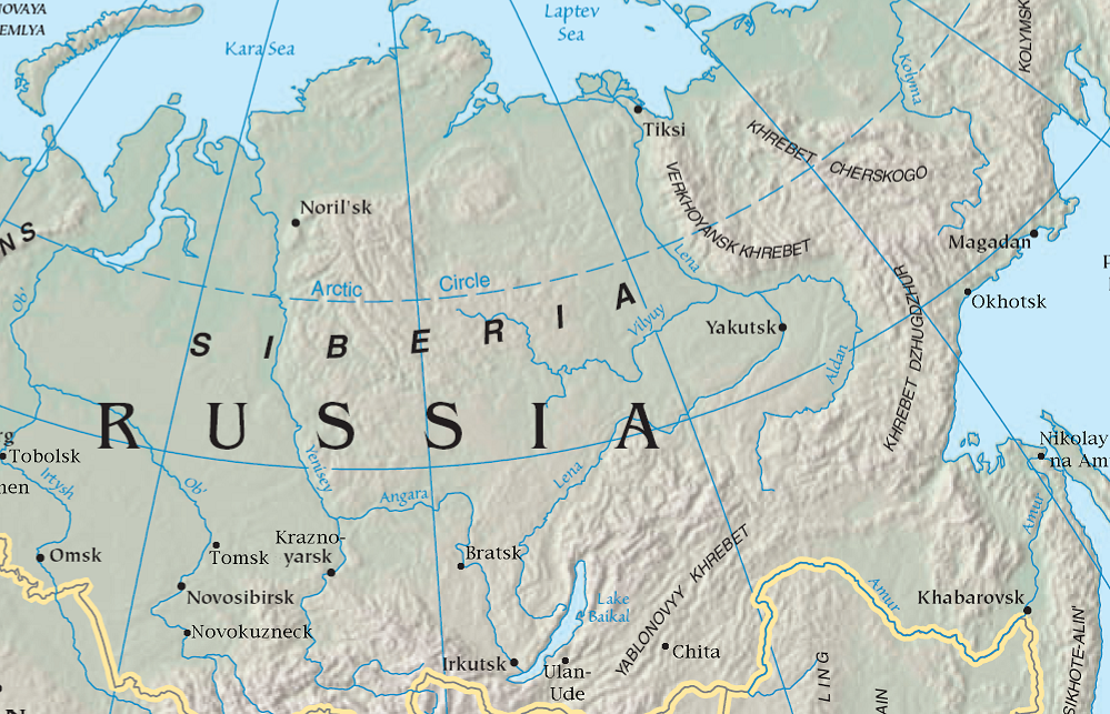 Map of northern Asia